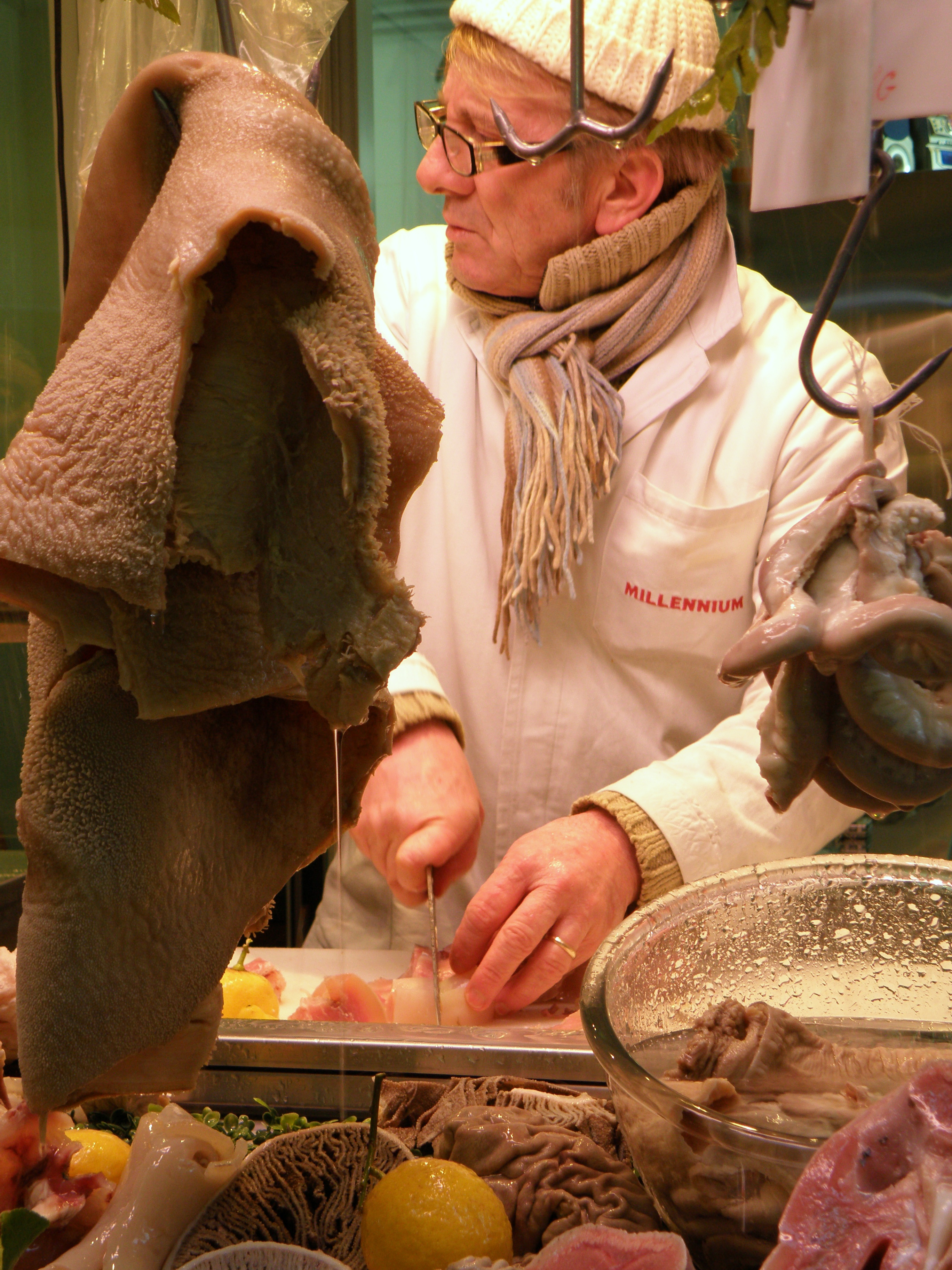 A seller of tripe is cutting some tripe in his little shop in the Pignasecca market, in Naples.